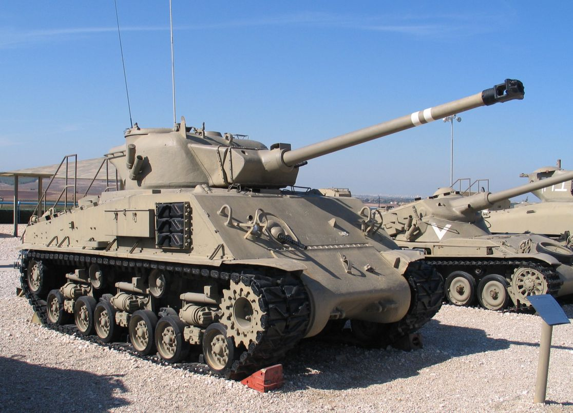 Description: Sherman M-50 (Supersherman) in Yad la-Shiryon Museum, Israel. 2005. Source: Photo by me, User:Bukvoed.